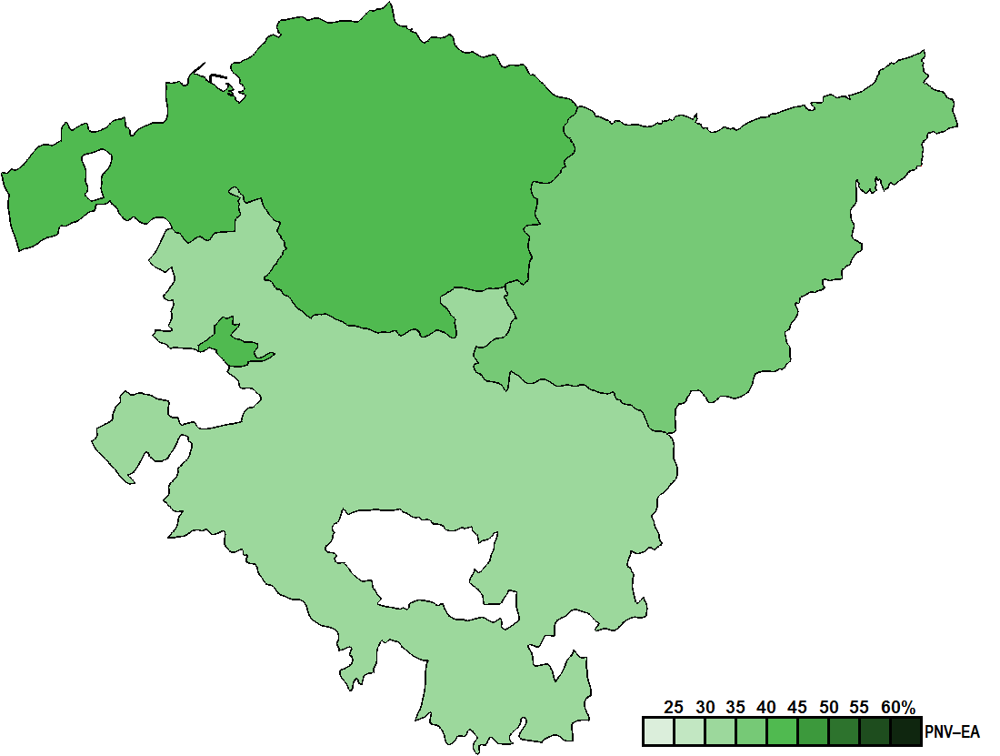 Provincial results for the 2005 Basque regional election.